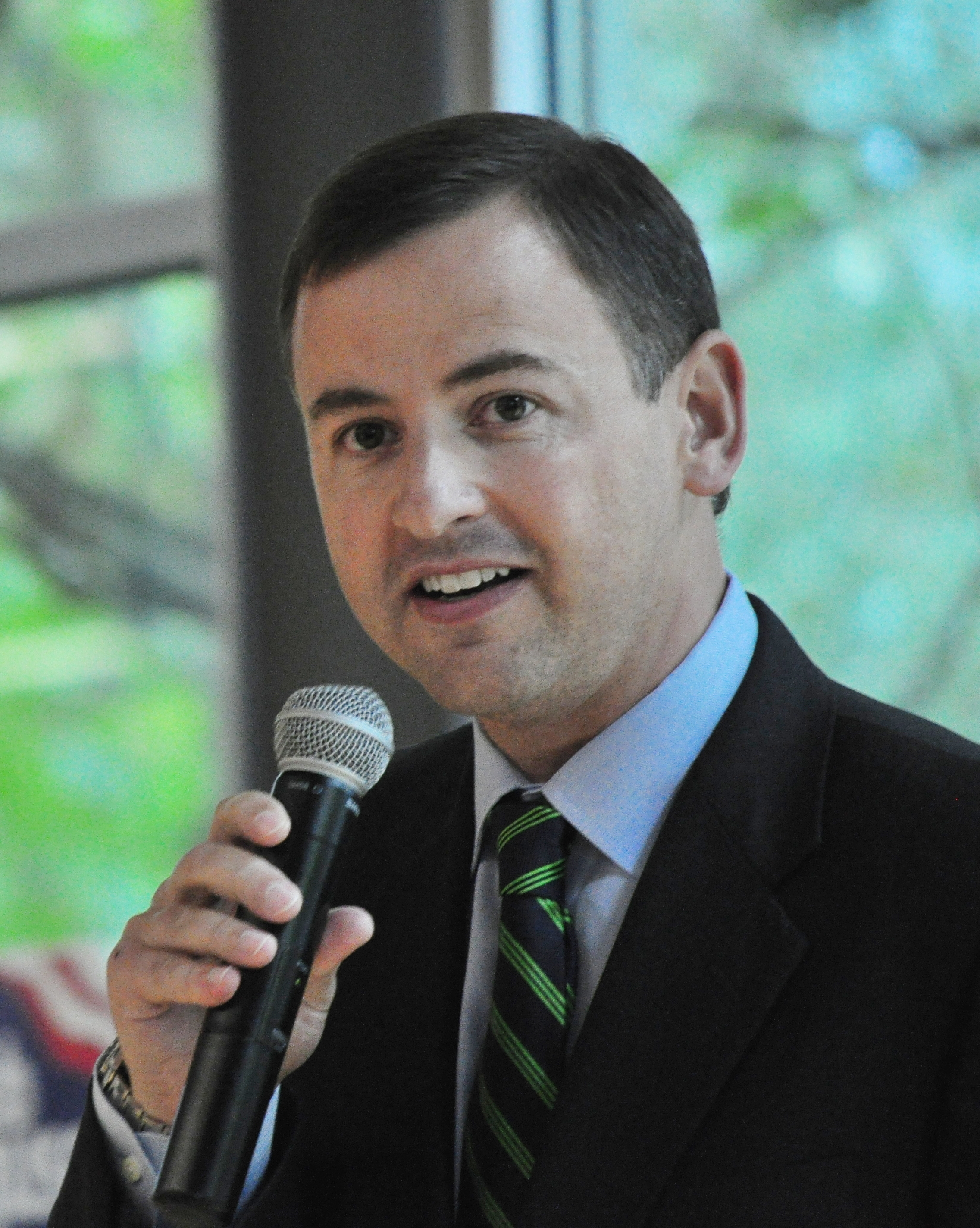 Rod Dembowski, member of the King County Council (King County, Washington, USA), speaking at state attorney general Bob Ferguson's annual Shrimp Feed, a Democratic Party get-together at Northgate Community Center, Seattle, Washington.